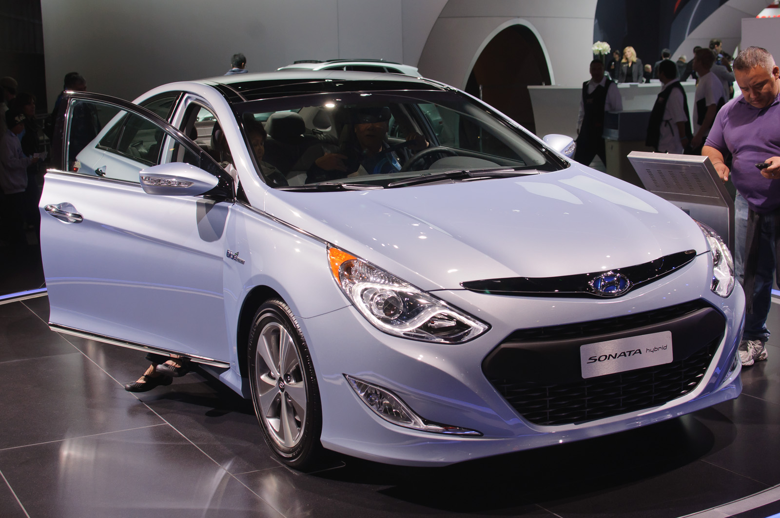 Hyundai Sonata Hybrid exhibited at the 2011 LA Auto Show